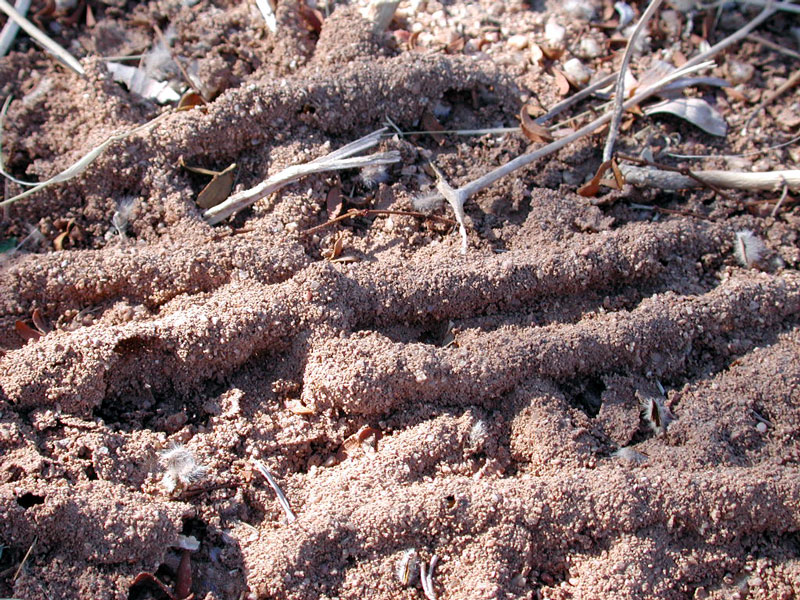 Dry twigs covered with soil by feeding activities of encrusting termites, Gnathamitermis perplexus in the Sonoran Desert, Arizona, USA.